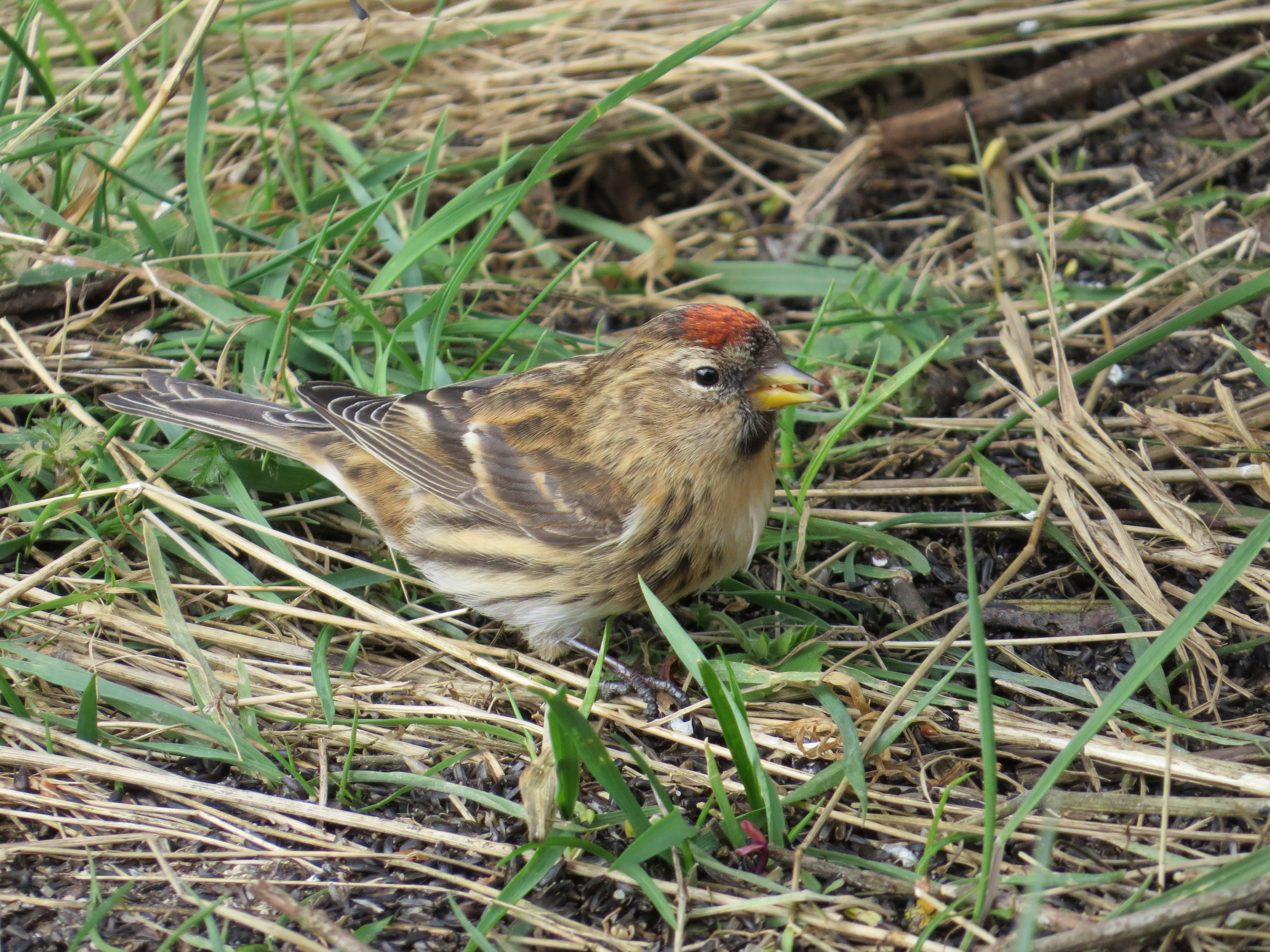 Lesser Redpoll Acanthis cabaret, female, East Chevington, Northumberland, UK